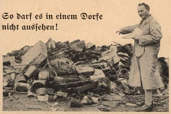 Walter Bau, teacher in Gnadenfeld and county deputy for protection of nature in Cosel county in Upper Silesia. From an article in Coseler Heimatkalender 1939, p. 93